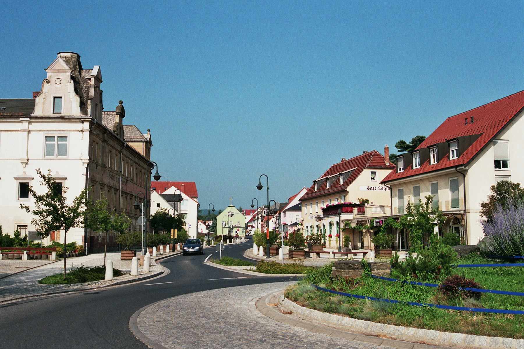 Kreischa: The "Haußmannplatz" ist the central place in Kreischa. The place is named in memory of Friedrich Haußmann, a former manor owner.